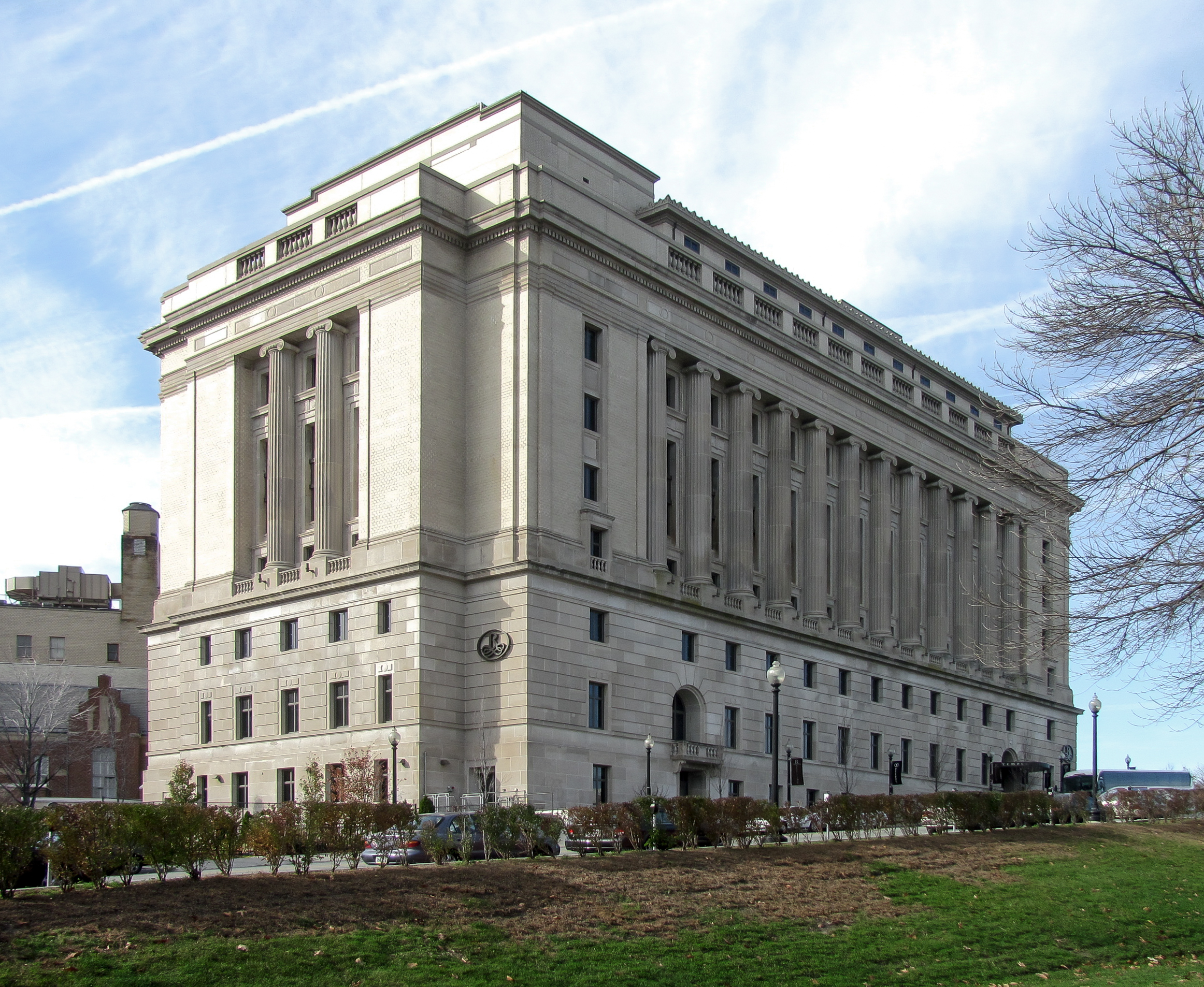 Masonic Temple, Providence Rhode Island